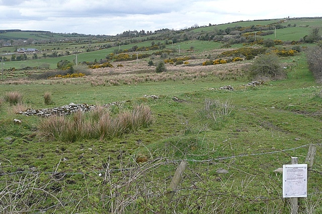 Knockbaun Pasture and rough grazing above Spink and near Knockbaun off the R430.